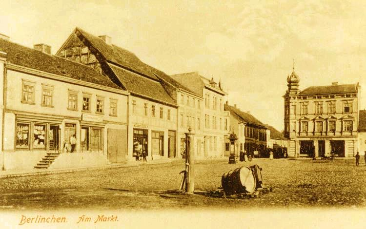 Marketplace of Barlinek (before 1945 Berlinchen)